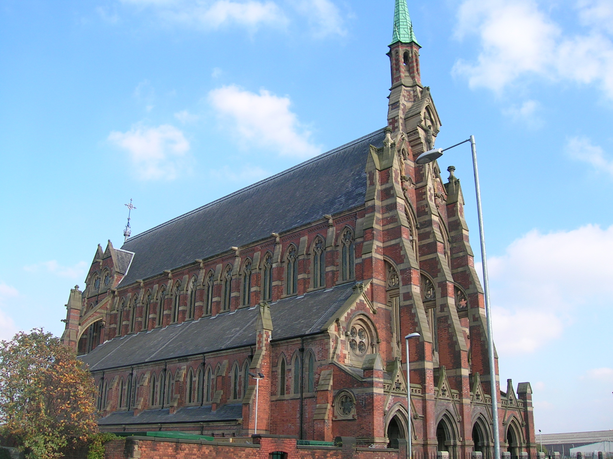 St Francis' Roman Catholic church, Gorton, Manchester, England, seen from the southwest. Part of Gorton Monastery.